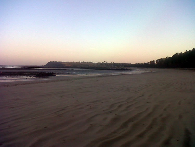 Picture of Manori beach in morning